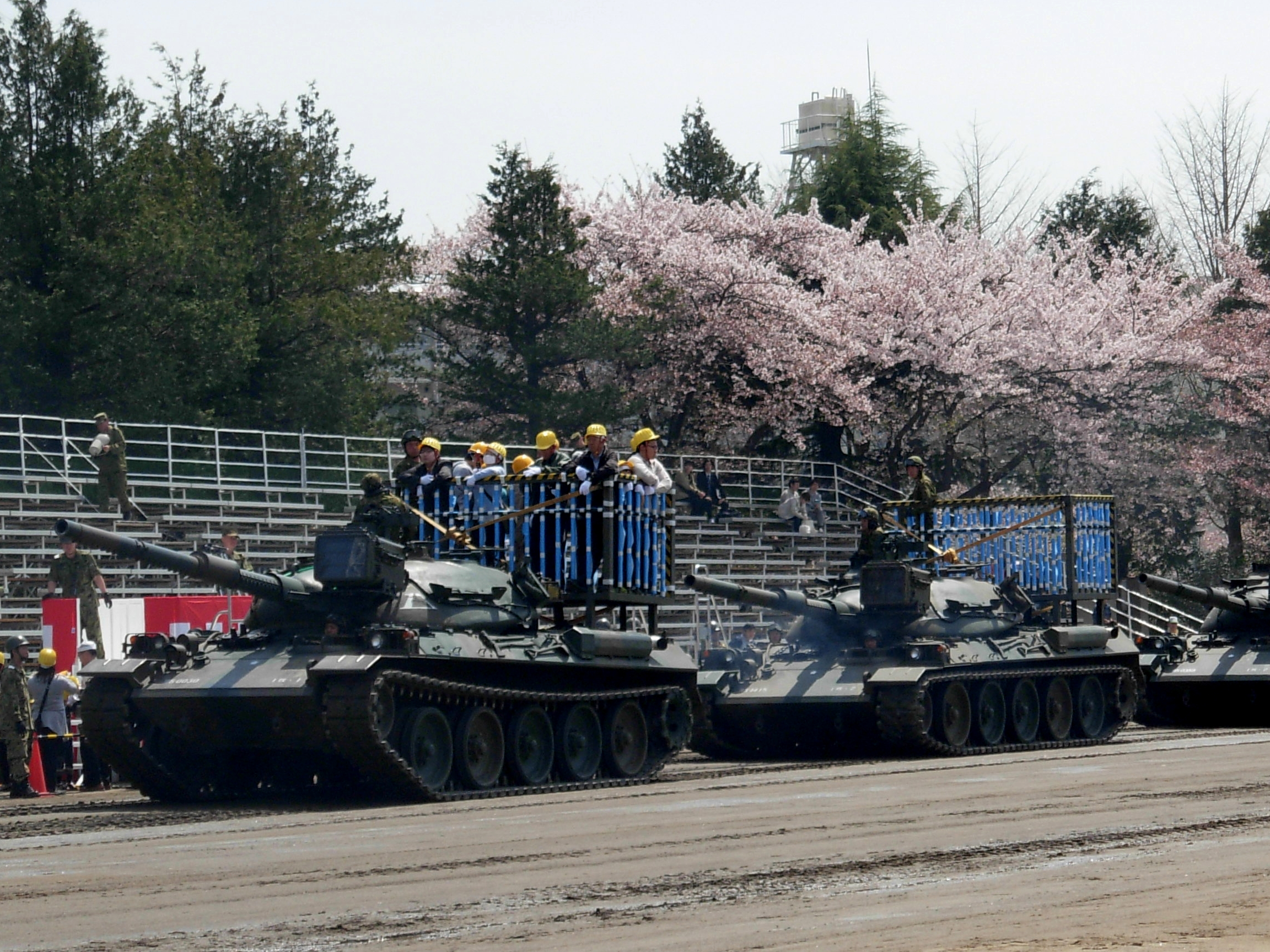 JGSDF Camp Nerima. Trial ride of tank in Foundation Commemorative Ceremony.